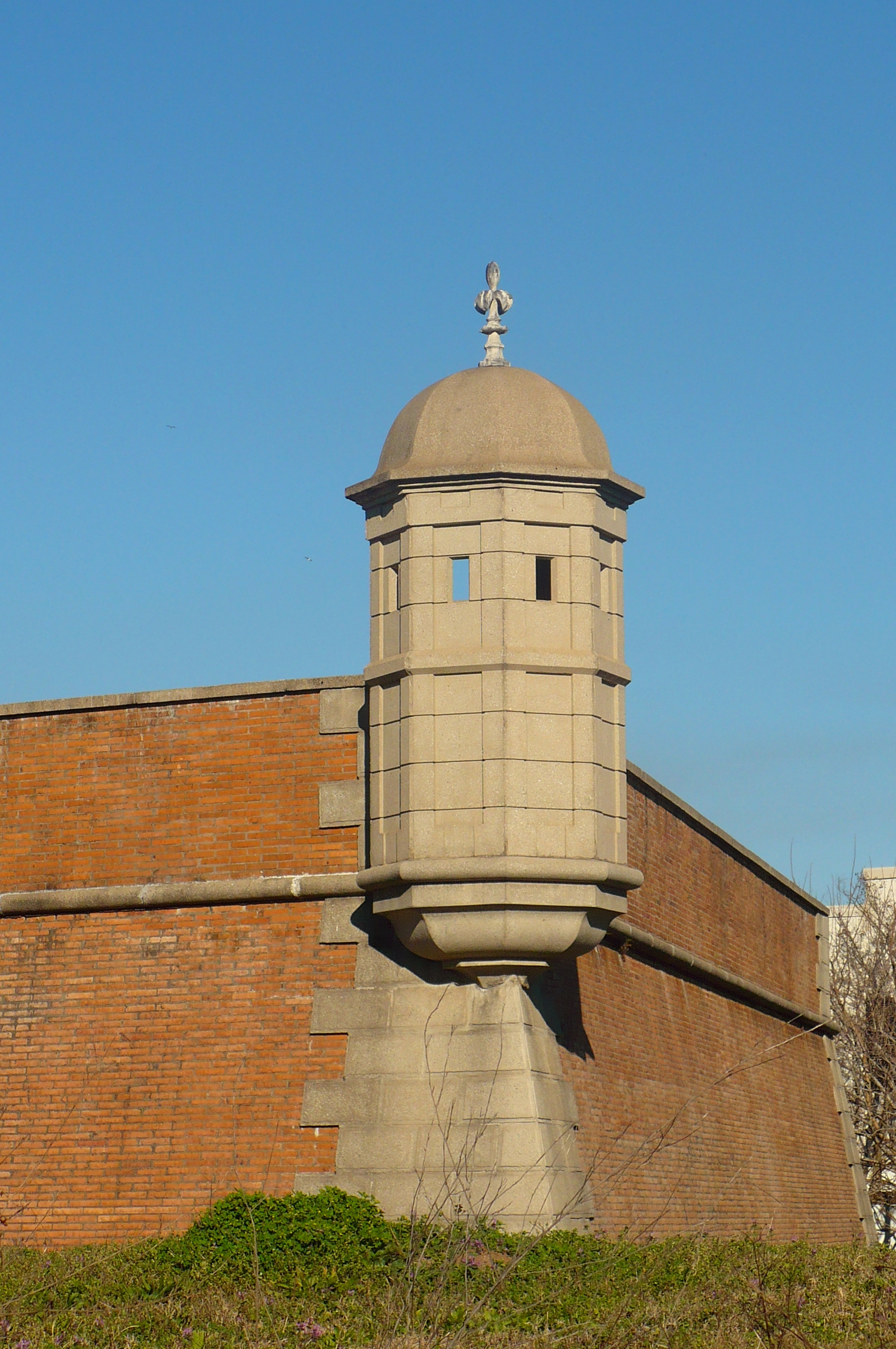 Bartizan at Fort Condé in Mobile, Alabama.